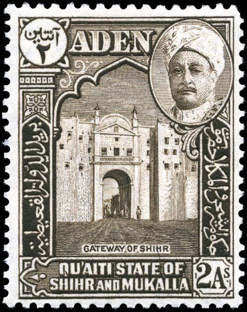 Aden Quaiti state of Shihr and Mukalla 2-anna stamp of 1942, depicting Sultan Salih bin Ghalib.